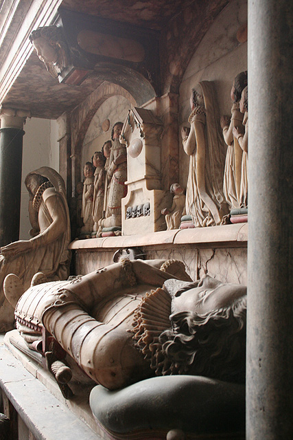 North Molton: All Saints Church In the Bampfylde Chapel. An early 17th century alabaster monument commemorating Sir Amyas Bampfylde, his wife Elizabeth and their numerous offspring. Looking east-south-east